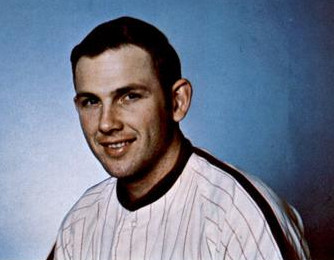 Professional baseball player Don Money